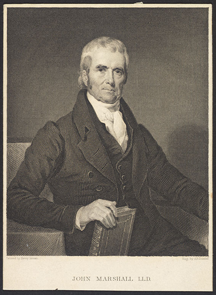 John Marshall (1755-1835) Chief Justice of the United States.